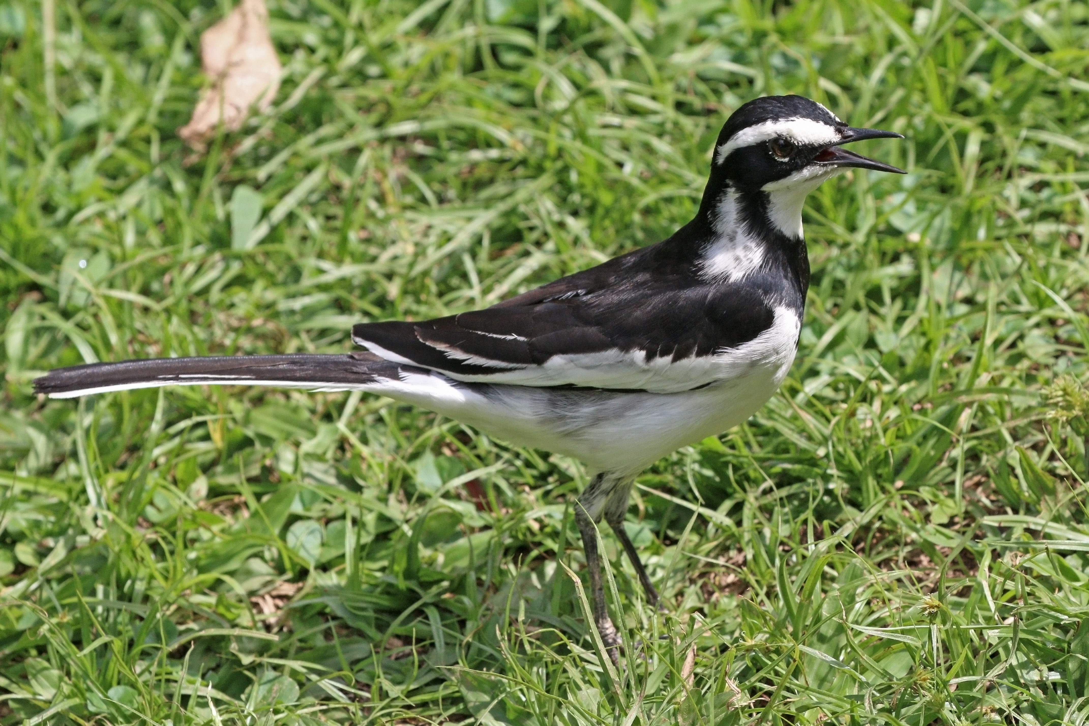 African pied wagtail (Motacilla aguimp vidua), Semuliki Wildlife Reserve, Uganda